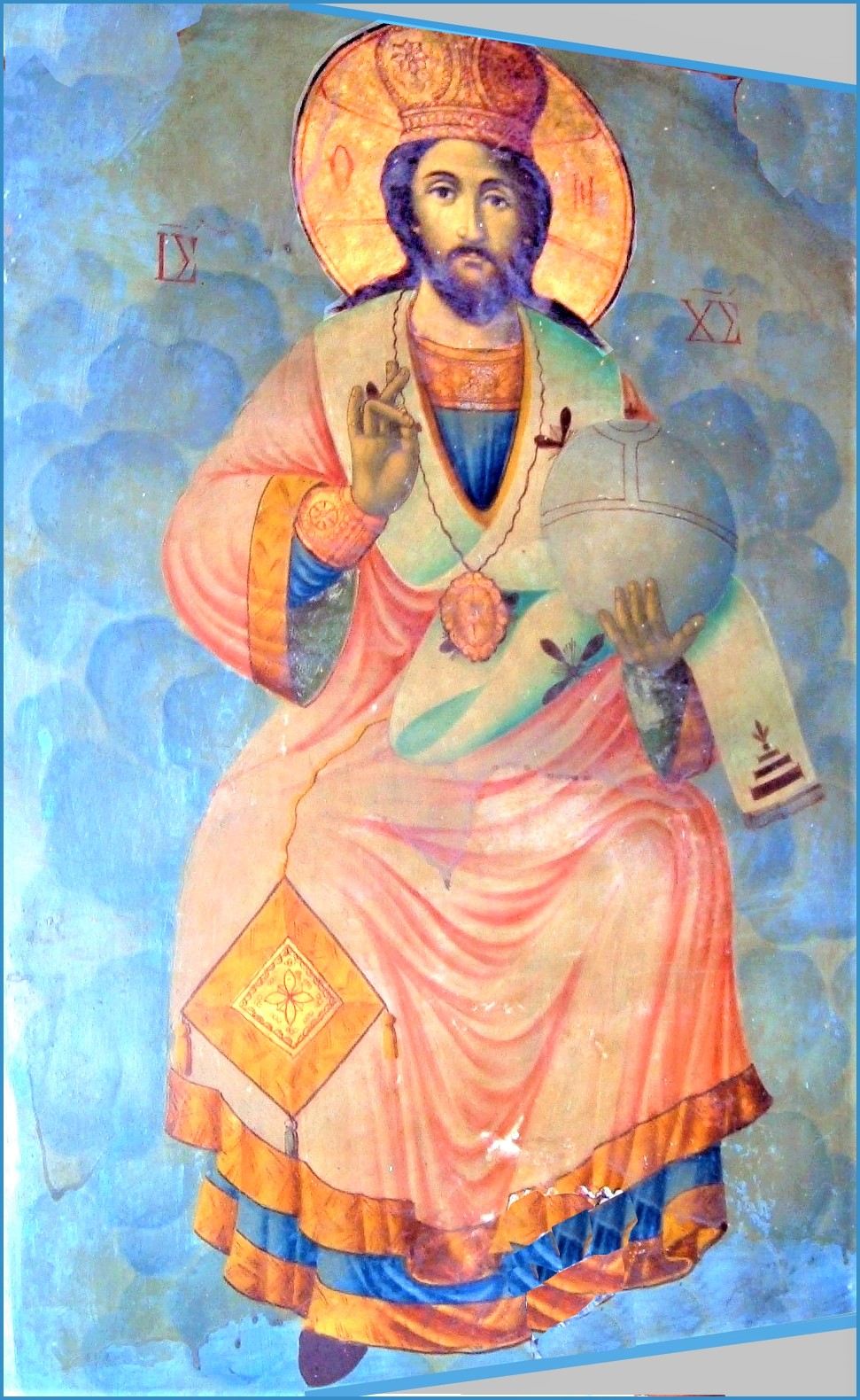 Icon of Christ in Ambelokipi (Zdraltsi).